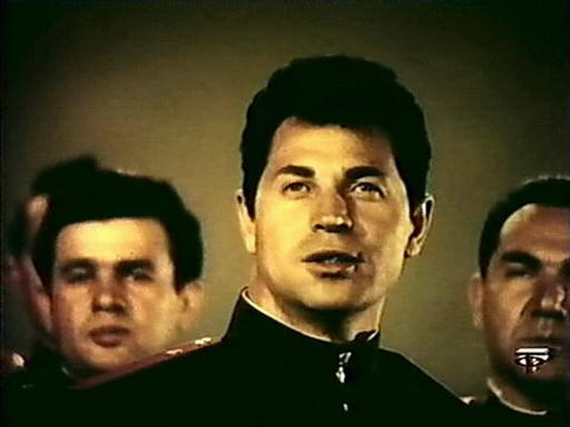 A screenshot of my father's performance of the song "Yo, Heave, Ho!" (Ej, uhnem!), 1965.